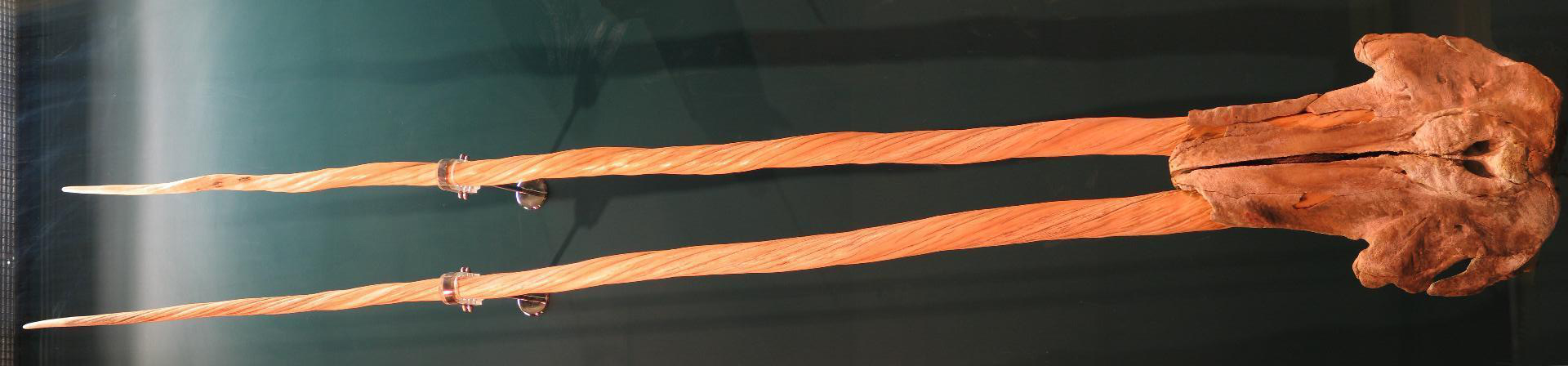 Narwhal (Monodon monoceros) skull with two tusks, as seen in the Zoological Museum in Hamburg, Germany; photographed in September of 2004 by Sönke Behrends. The picture was taken in the Zoological Museum in Hamburg. The object is behind protective glas, which causes some reflections. Flash was switched off for that matter. The worst reflections were edited. The skull was brought to Hamburg in 1684, and provably originates from a female animal. The German description provided by the museum translates to:“The right tooth can also grow into a tusk in very rare cases, as proven by 12 skulls collected by various museums during the past 300 years.These skulls show, that the second tooth can be developed to a very different degree, and even -- unexpectedly -- the spiralling direction of growth is towards the left and not towards the right mirroring the other half.All these skulls with two tusks originate from male animals; however, the skull in Hamburg is provably that of a female. It is thus unique.”